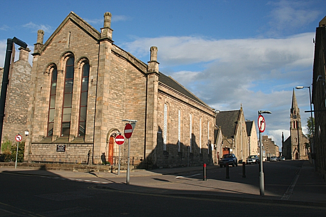 Elgin High Kirk. In fact there are two of Elgin's rather large supply of churches in this view. On the left is Elgin High Kirk. This is now a Church of Scotland, but was originally a United Free Church, built in 1843 by well-known local architect Thomas Mackenzie. losing the view at the far end of the street is 374113.